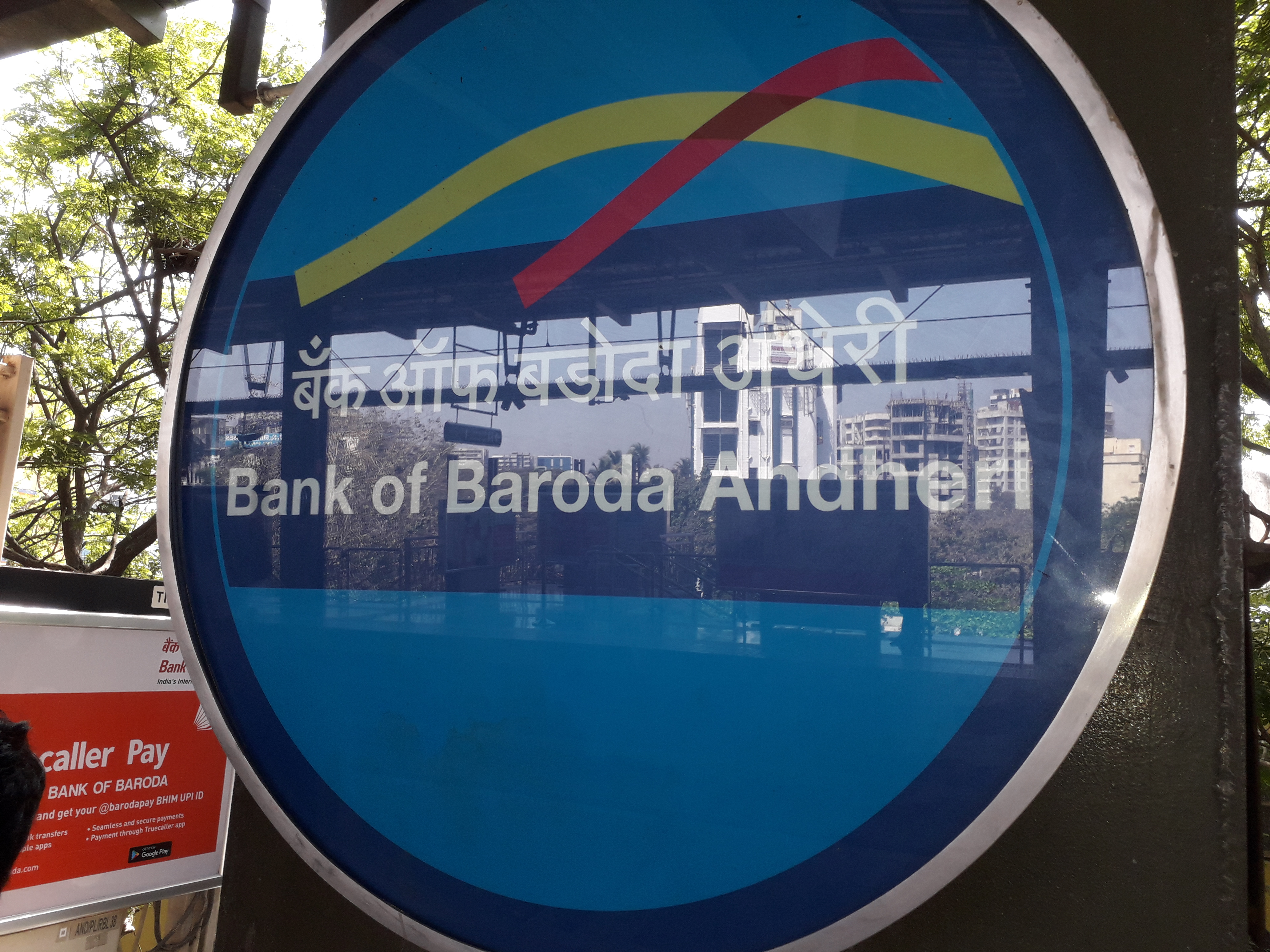 Bank of Baroda Andheri - Platform board